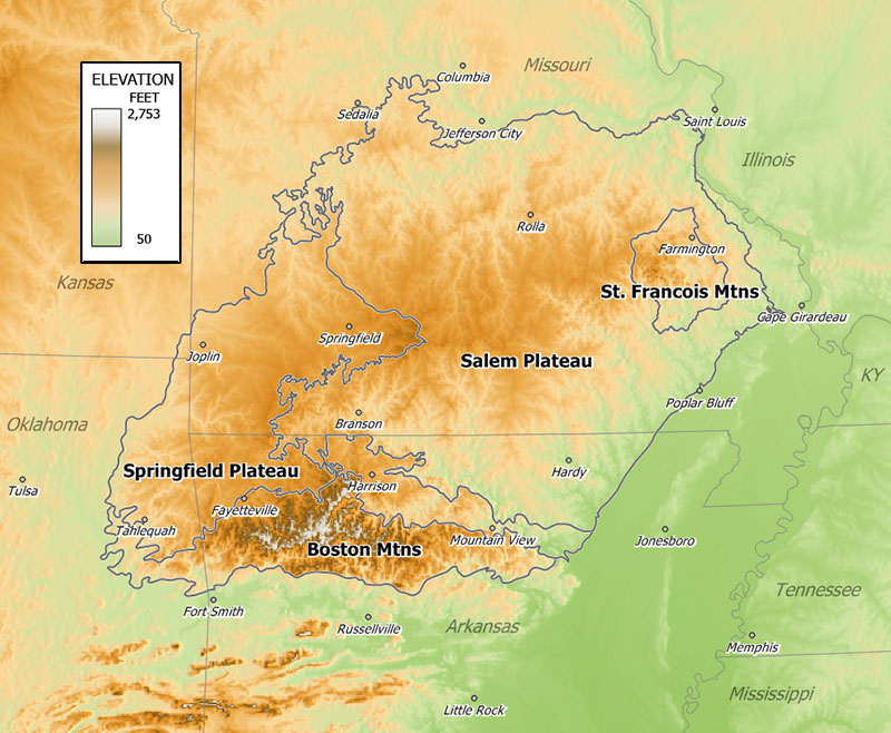 Relief map of the Ozarks.